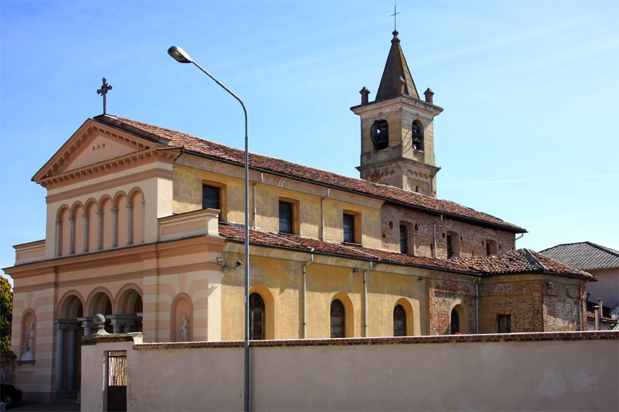 Parish church of Lignana, Vercelli, Italy